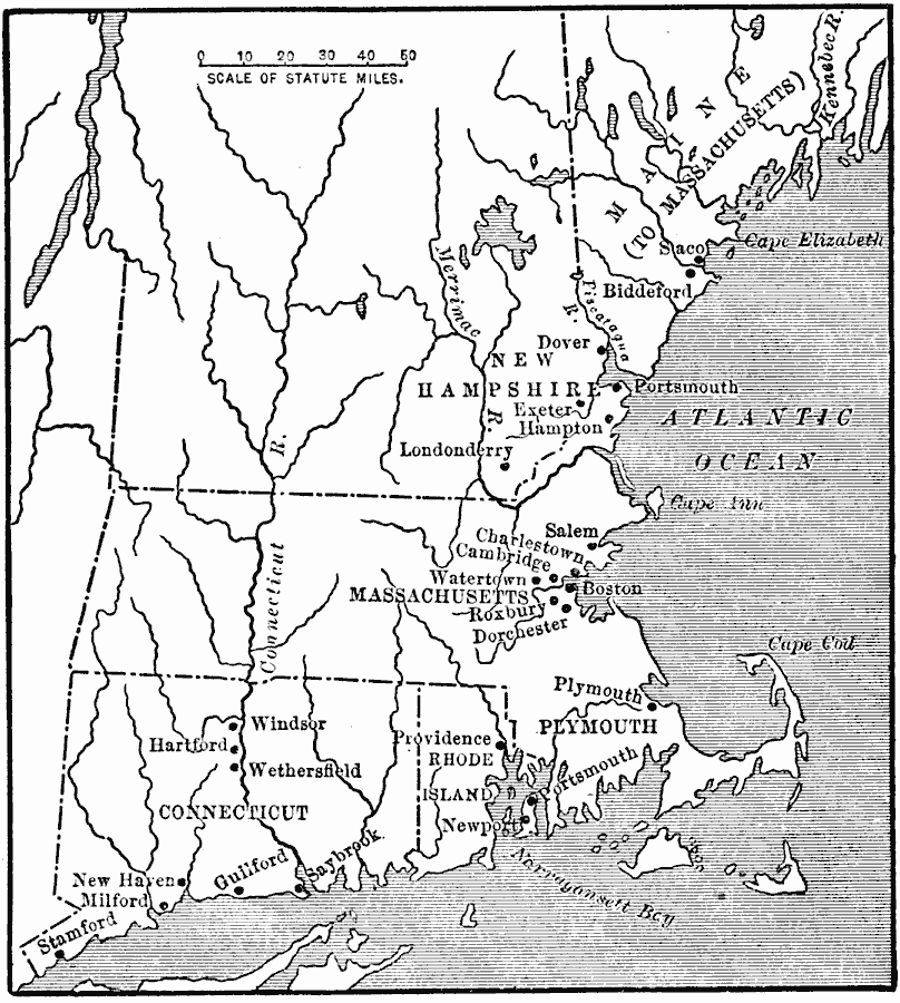 A map of the New England Colonies of Maine (to Massachusetts), New Hampshire, Massachusetts, Rhode Island, and Connecticut in the 1600s, showing early settlements.